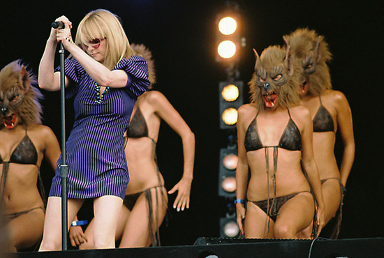 Alison and her Wolfladies - Wireless Festival, June 2006, Hyde Park, London Fuji Reala, Nikon F-601 and 200mm f4 Nikkor (AI'd)